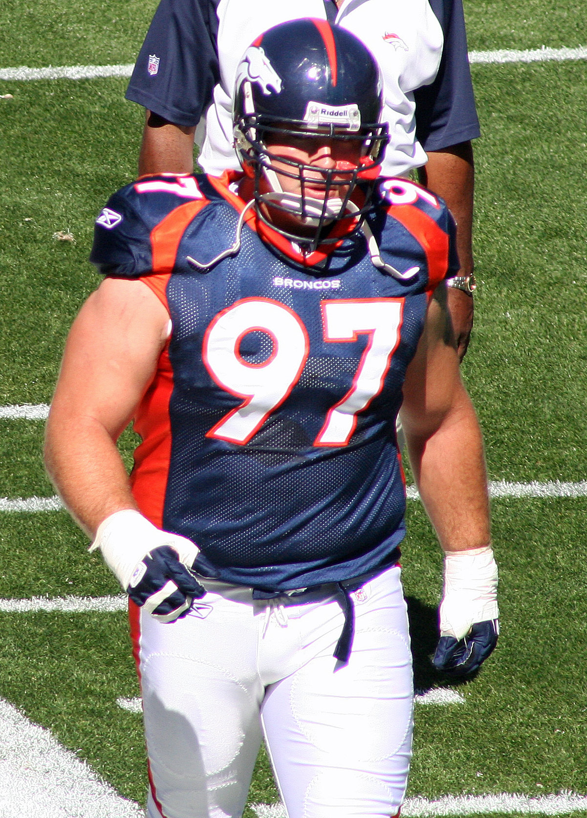 Justin Bannan, a player on the Denver Broncos American football team.